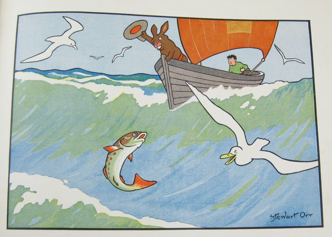 Illustration by Stewart Orr for Two Merry Mariners (London: Blackie & Son, 1902)